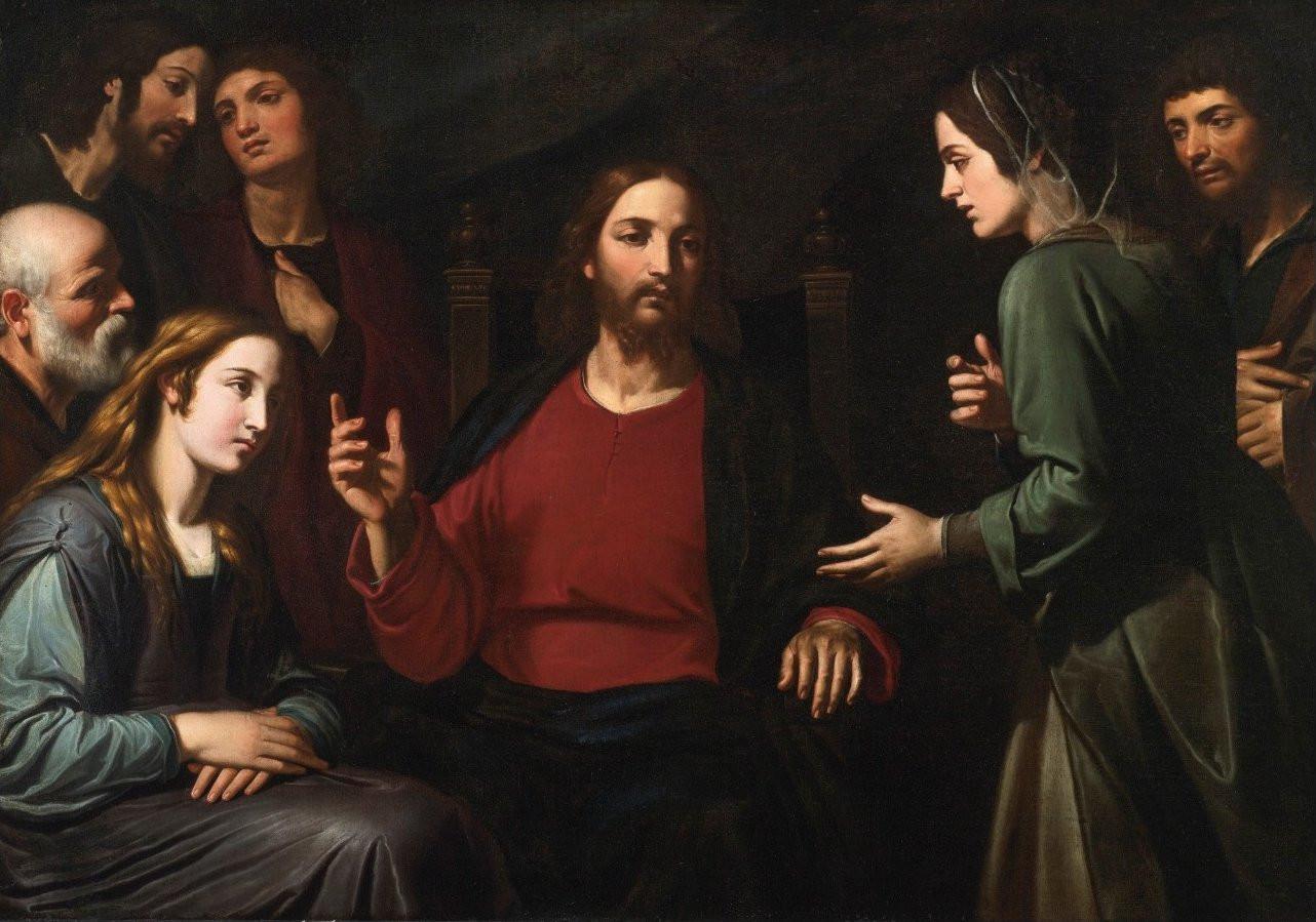 Christ in the House of Mary and Martha by Giovanni Bernardino Azzolino, oil on canvas, 123.8 by 175.3 cm.